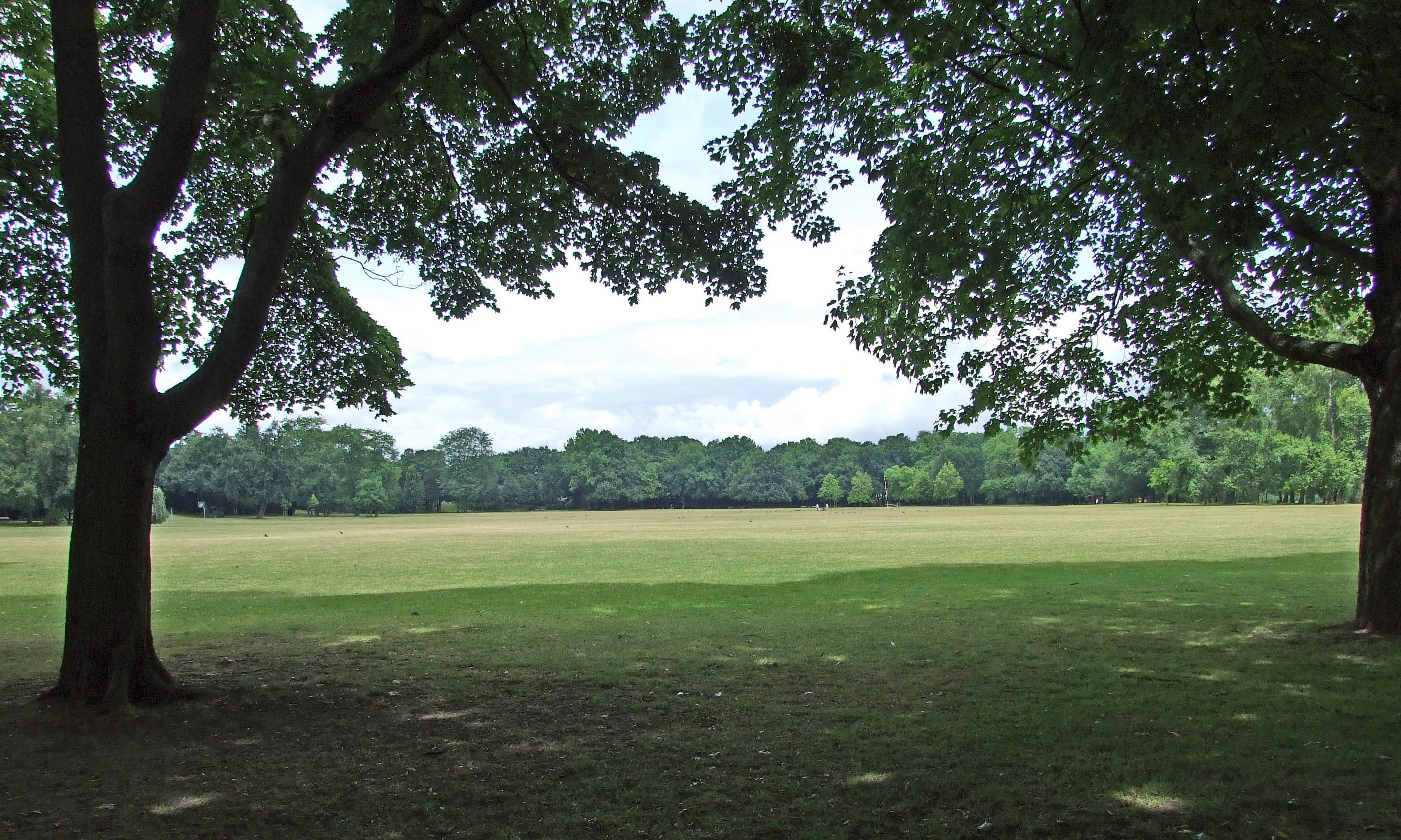 Ostpark (Eastpark) in Frankfurt am Main, Germany, view to north